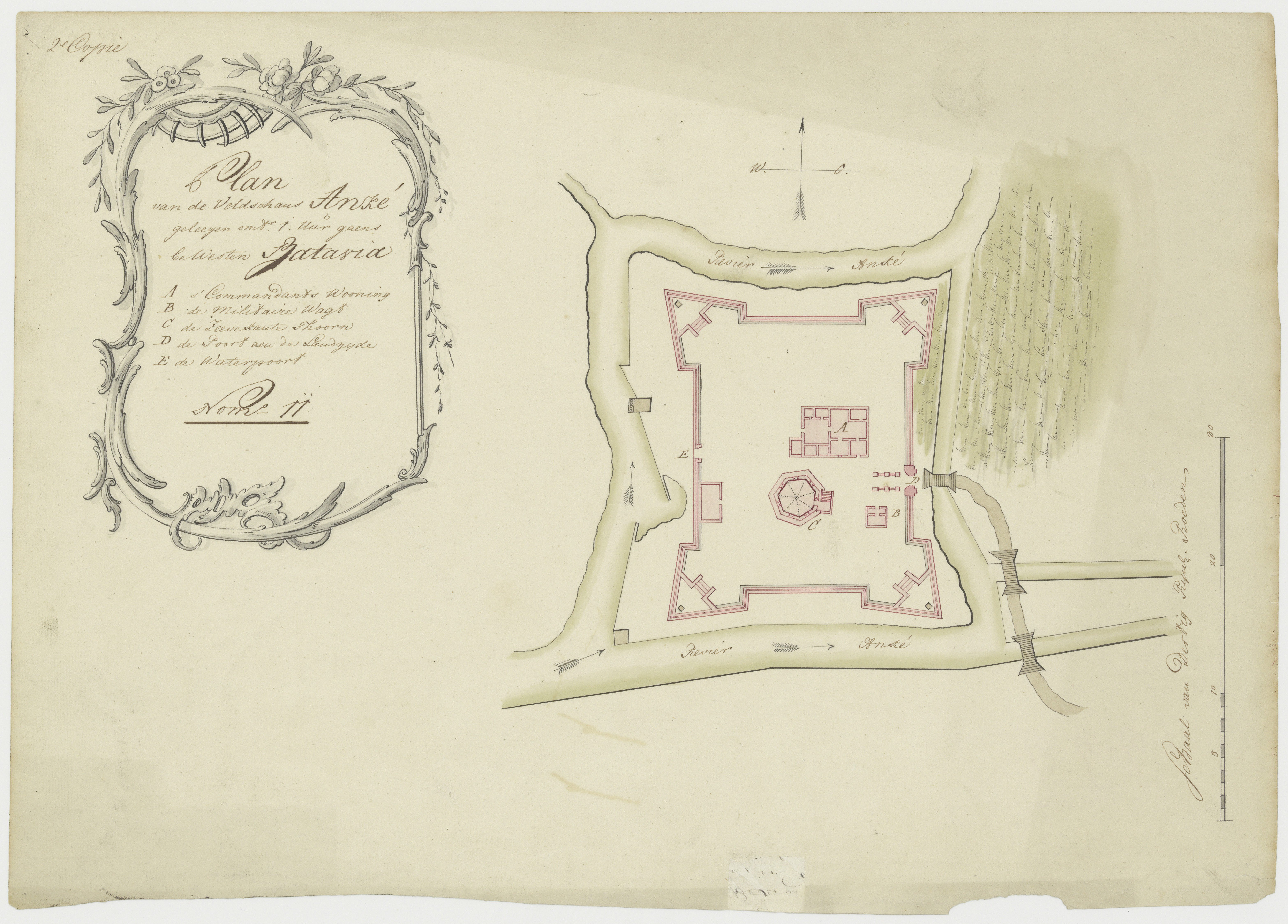 According to the Leupe catalogue (NA), the original title reads: Plan van de Veld-Schans Anke, geleegen omtrent 1 uur gaans bewesten Batavia. The map is marked: 2e Copie. Notes on reverse: No. 10.b. [marked on both the left and right hand side].